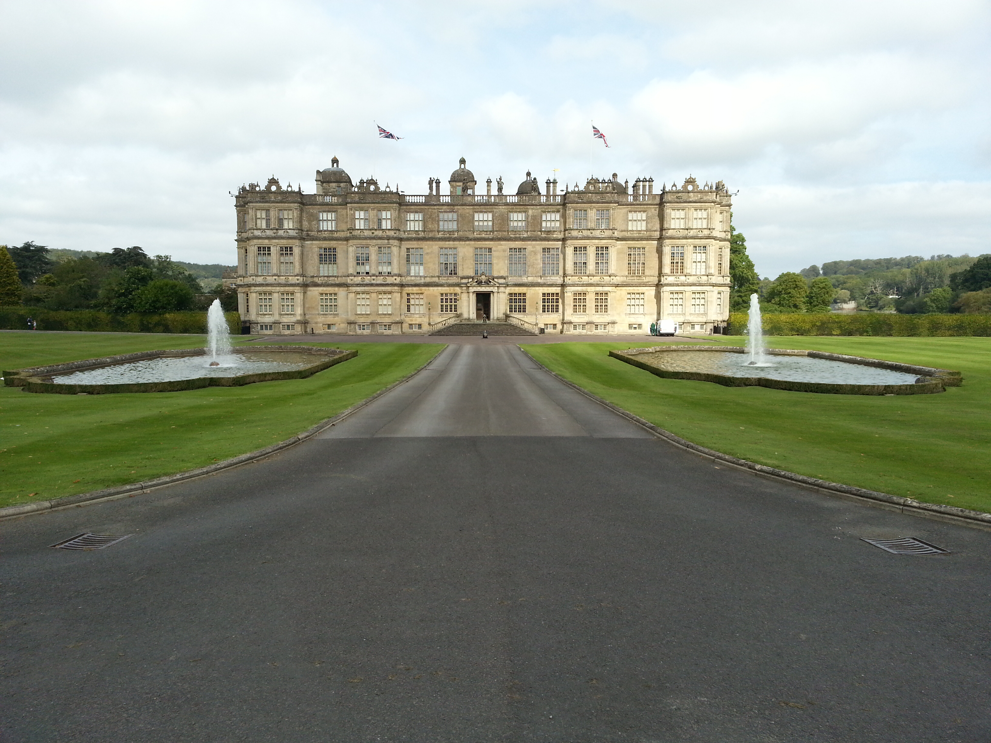 Longleat House, Wiltshire. Stately home to the 7th Marquess of Bath